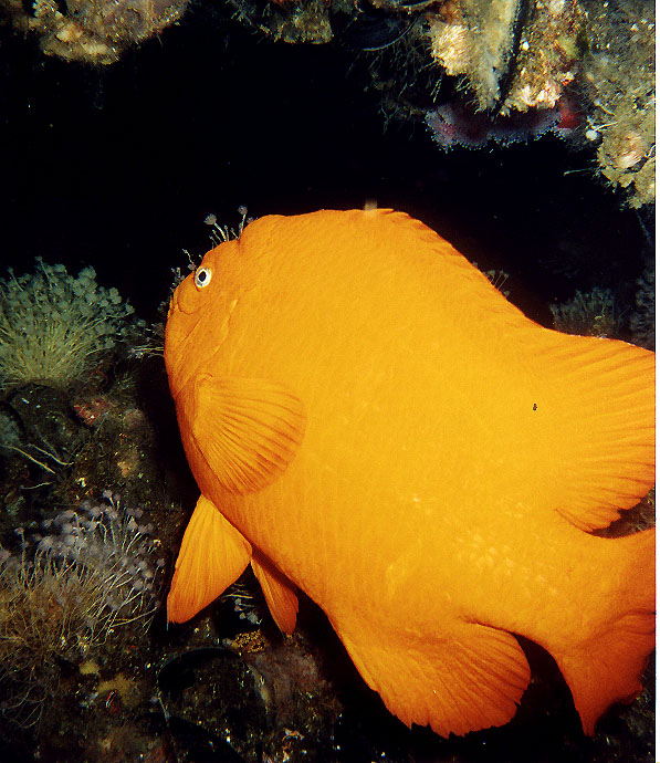 Aggregating Anemone on the Yukon in Wreck Alley, San Diego